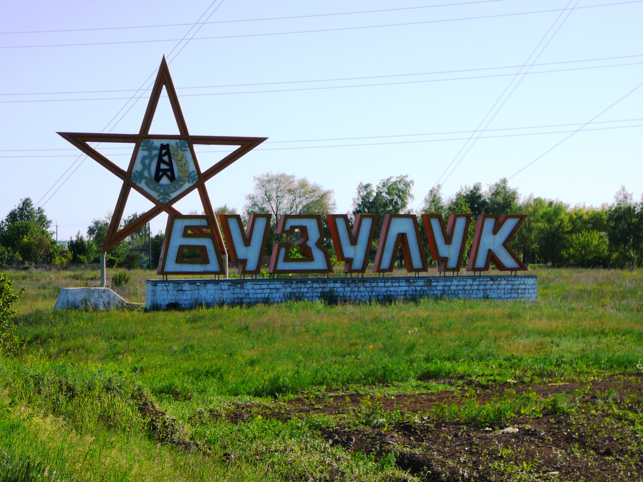 City limit sign of Buzuluk.